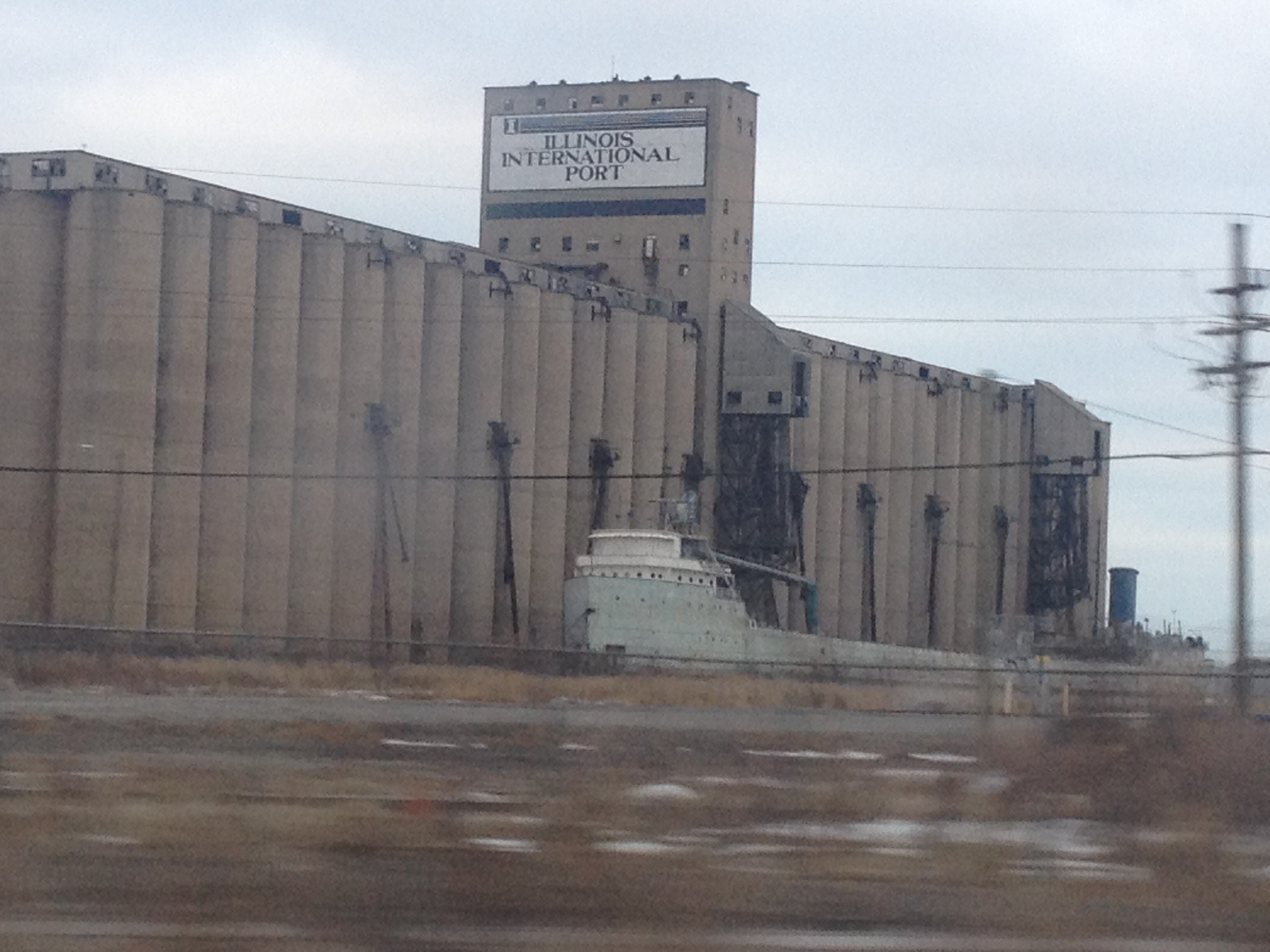 Appears to be an abandoned boat on a loading dock